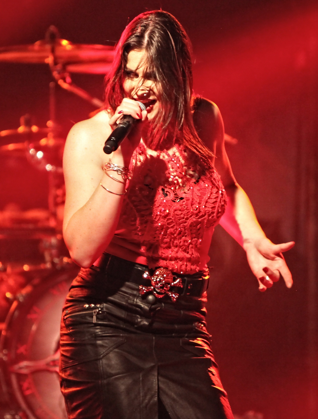 Floor Jansen performing live with Nightwish in Florida.